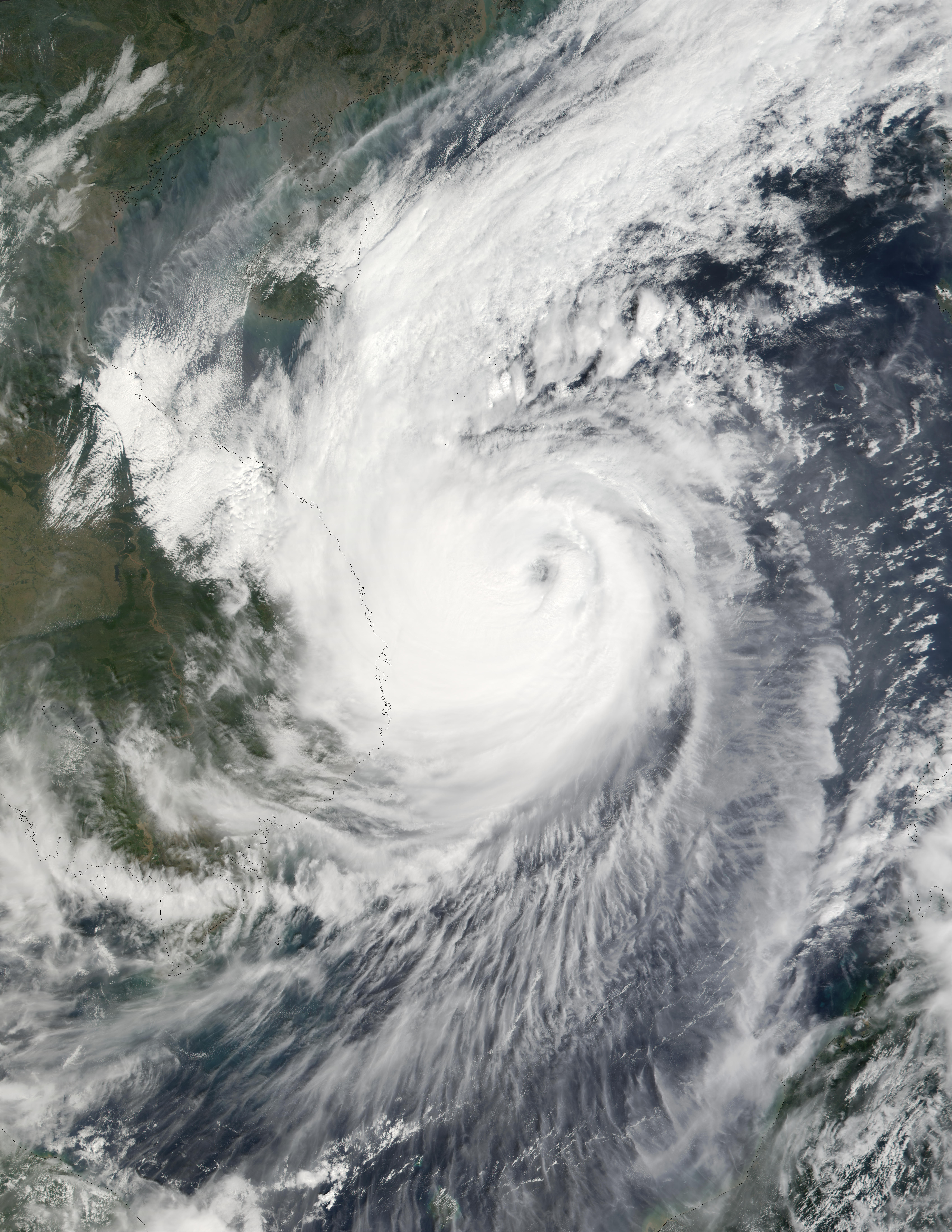 This MODIS image from November 11, 2001, shows Typhoon Lingling in the South China Sea, buffeting the coast of Vietnam.